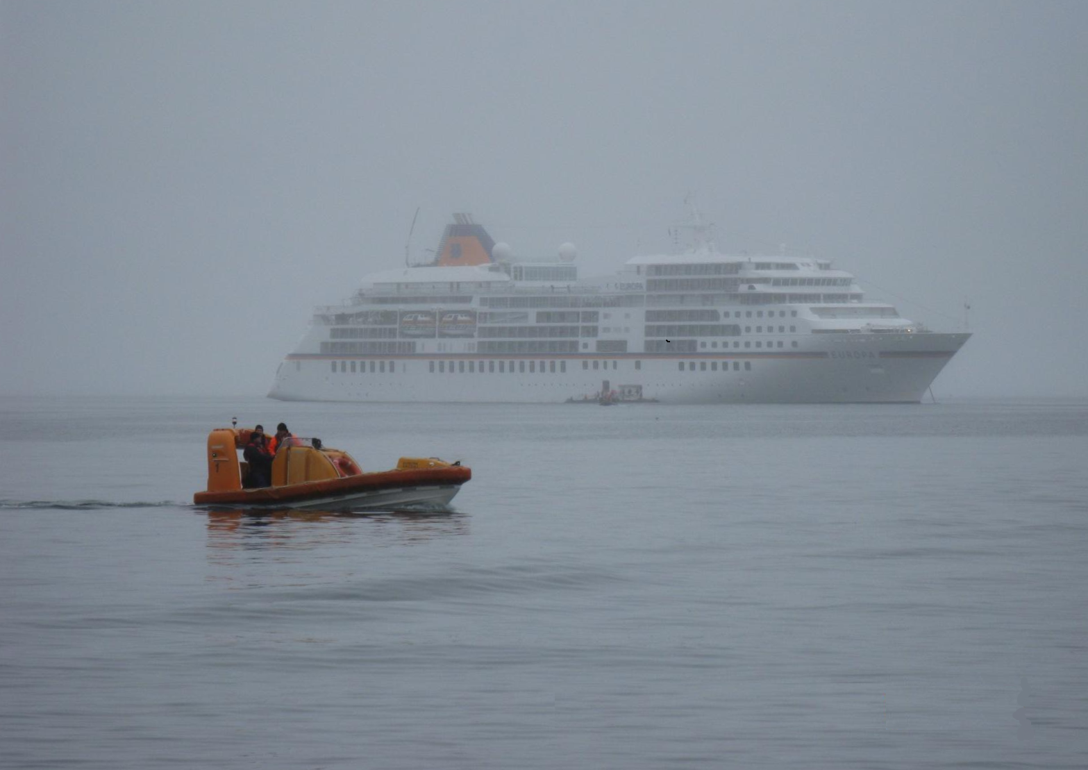 MS Europa near the island of Jan Mayen at anchor in fog - 2011